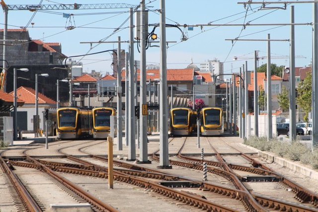 The Póvoa de Varzim terminus of the Metro do Porto. At the left is the old station building of the extinct narrow gauge railway.